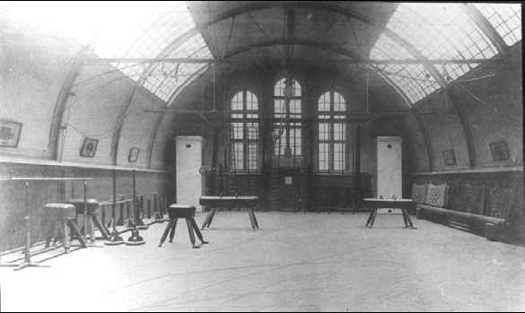 Gym of Annenshule gymnasium at 1900-th